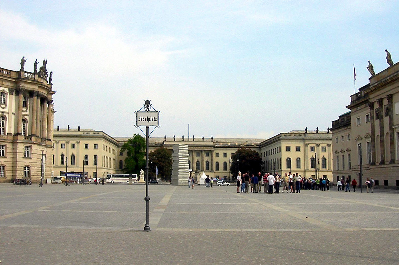 To the right, the State Opera. To the left an front the Humboldt University. The artwork depicting a large pile of books in the middle distance is a temporary exhibit and is not connected with the book-burning which took place in the centre of the square in 1933. Photo by User:Adam Carr, May 2006